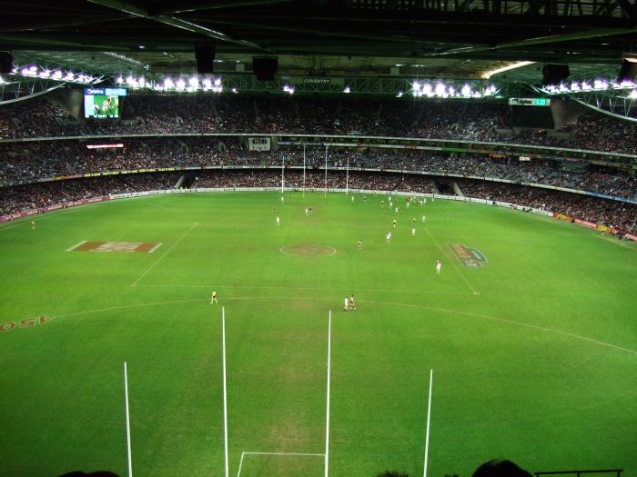 AFL match